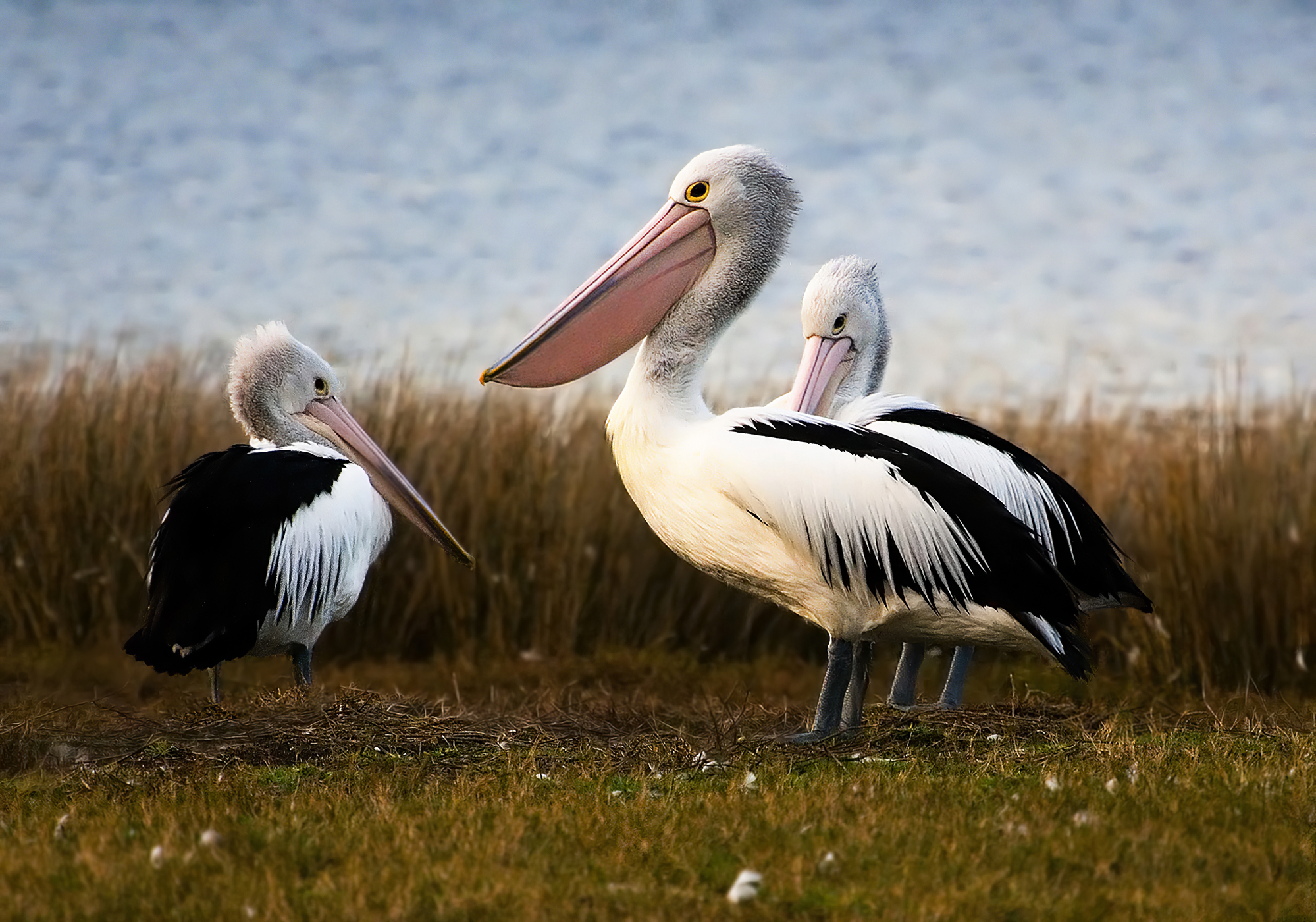 Three Australian Pelicans in Tasmania, Australia Camera data Camera Canon EOS 400D Lens Canon EF 70-200mm f4L w/ 1.4x teleconverter Focal length 280 mm Aperture f/4 Exposure time 1/800 s Sensivity ISO 800